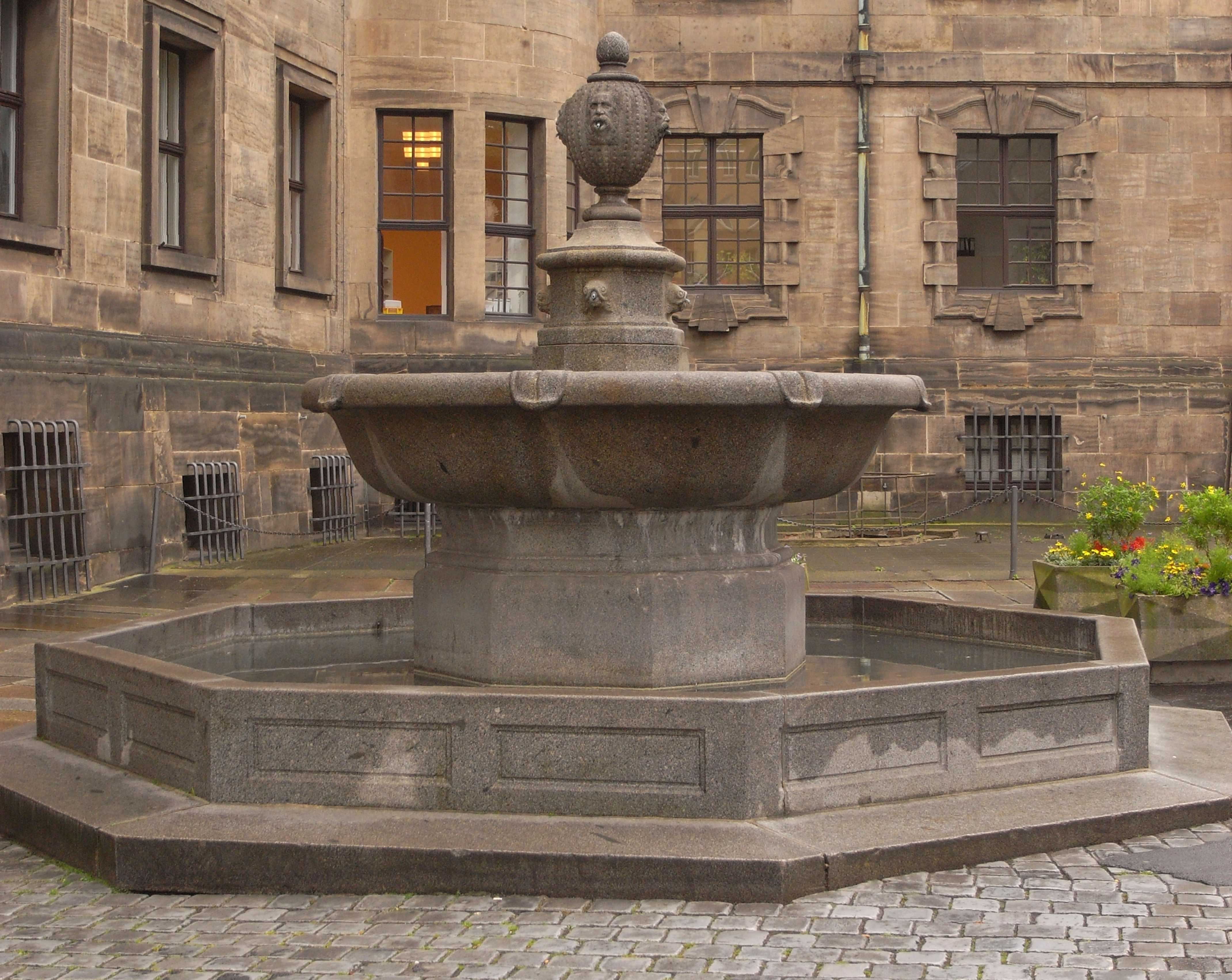 fountain "Rathausbrunnen" by the townhall (Dresden, Saxony, Germany), Georg Wrba 1911 granodiorite from Saxony